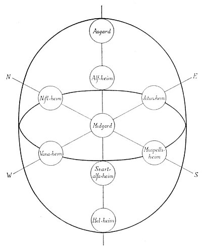 Diagram of one interpretation of the Nine Worlds of Norse Mythology.